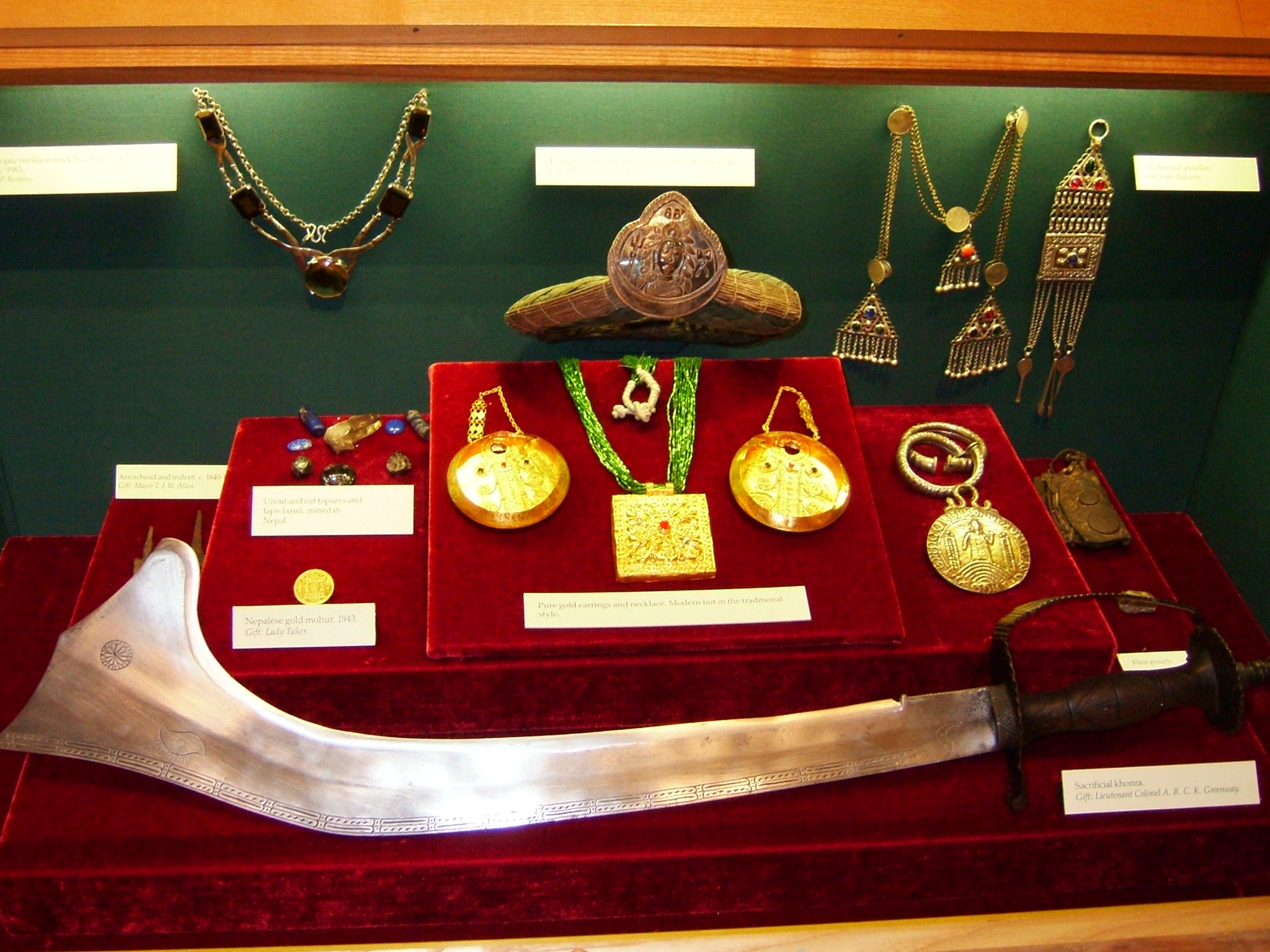 Collection of Nepali memorabilia